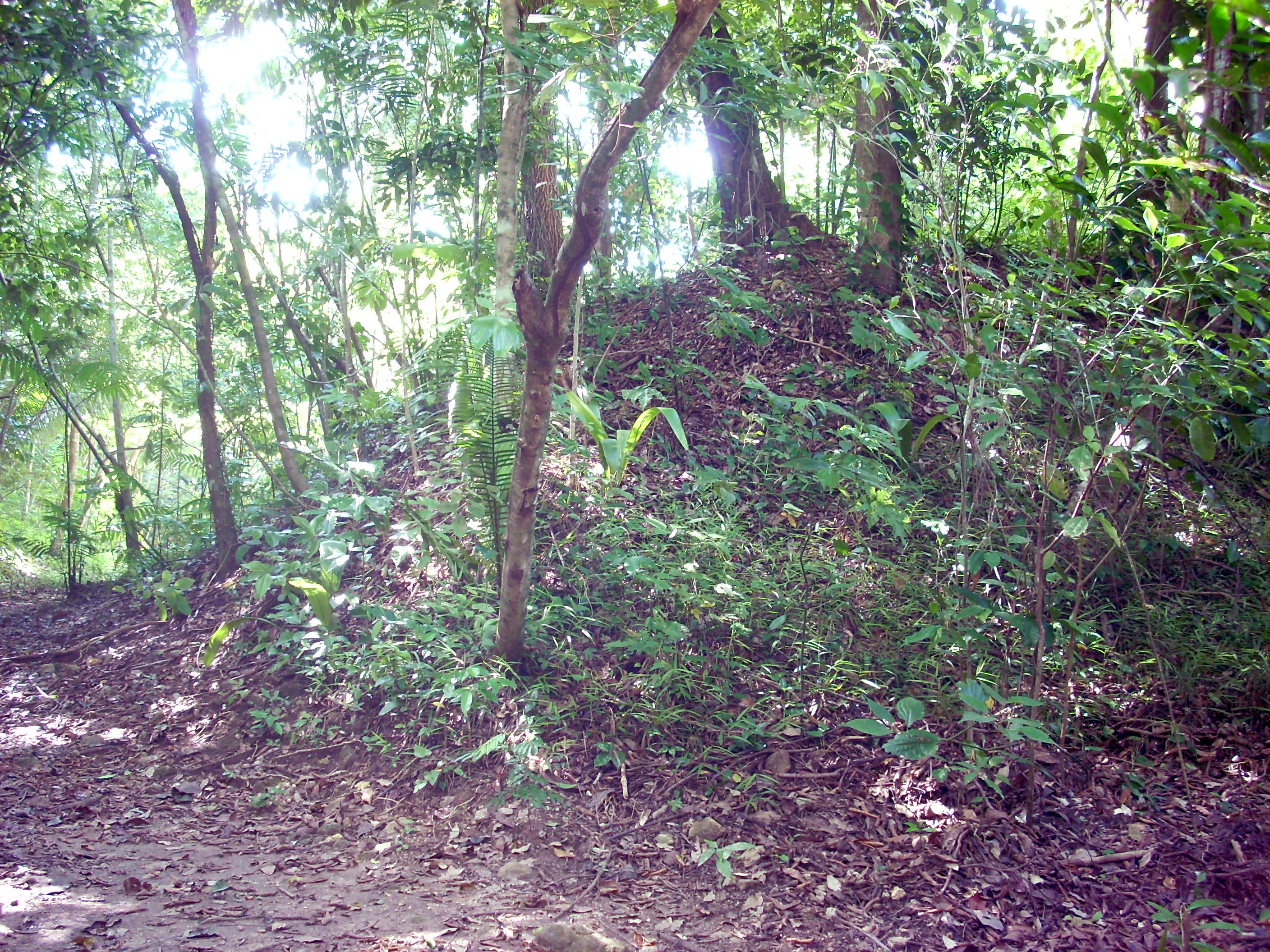 West Plaza Structure 3, dividing the East Plaza from the West Plaza at El Chal, seen from the East Plaza. Peten, Guatemala.